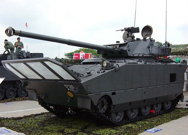 AMX-10P PAC 90